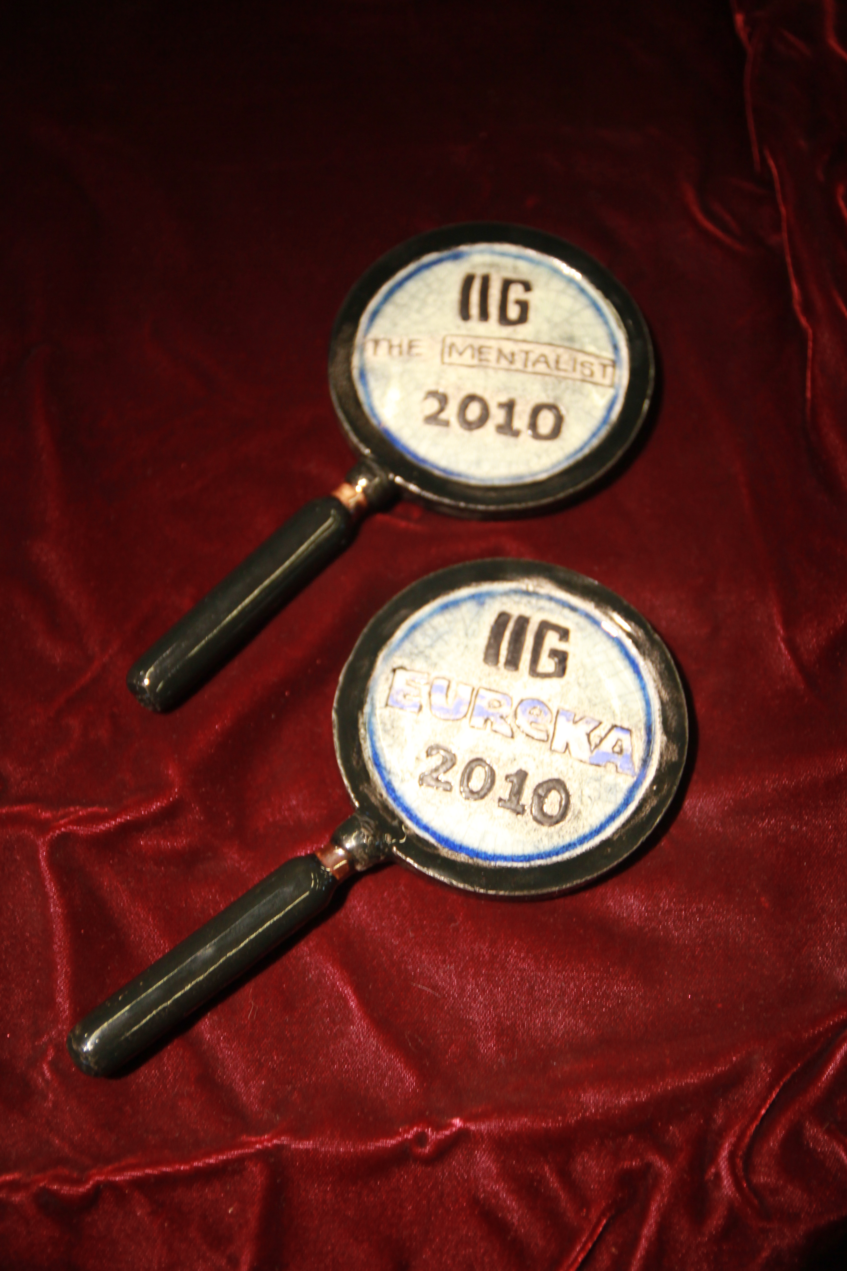 IIG 10th Anniversary Awards, hand crafted by Amy Davis Roth (Surly-Ramics). Awards are for "The Mentalist" and "Eureka" Television Series.